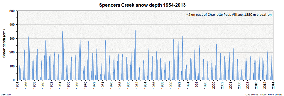 Snow depth record, Spencers Creek, near Charlottes Pass and the Perisher Blue ski resort, Kosciusko National Park, Australia.